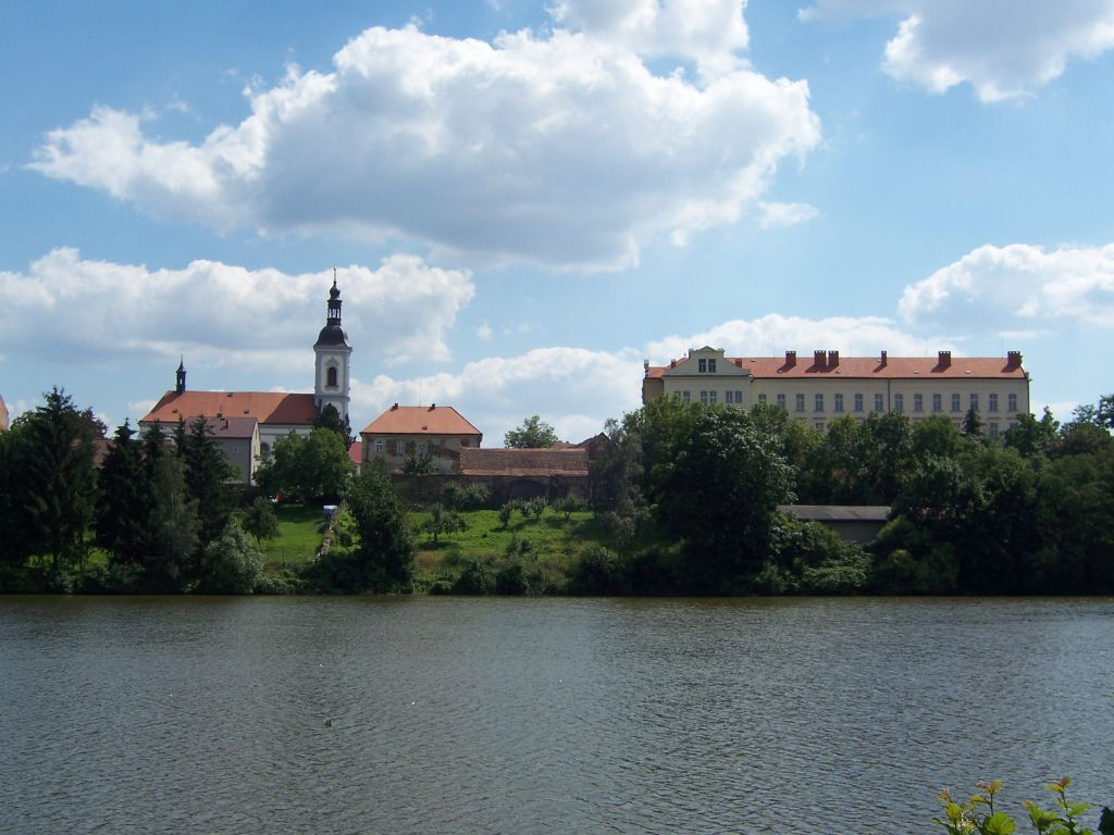 Říčany, center of town over the Mlýnský Pond